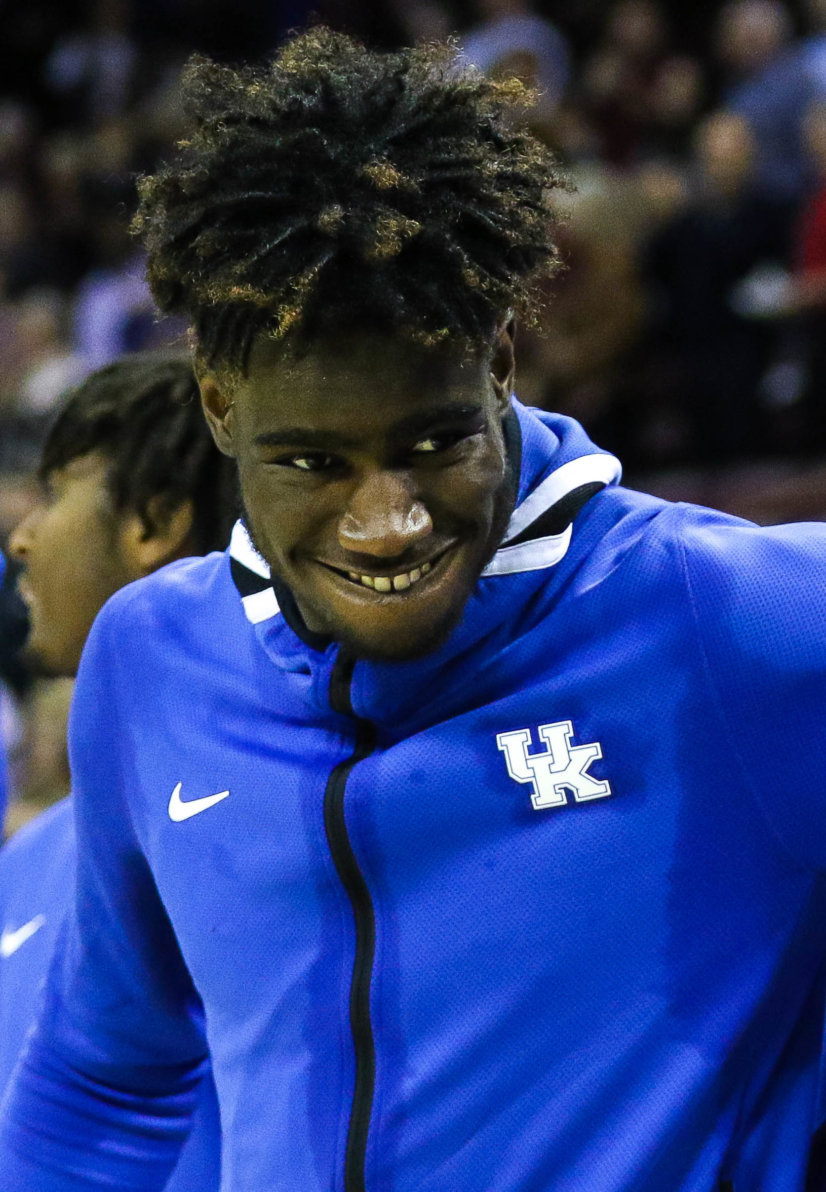 Photo by Katie Dugan